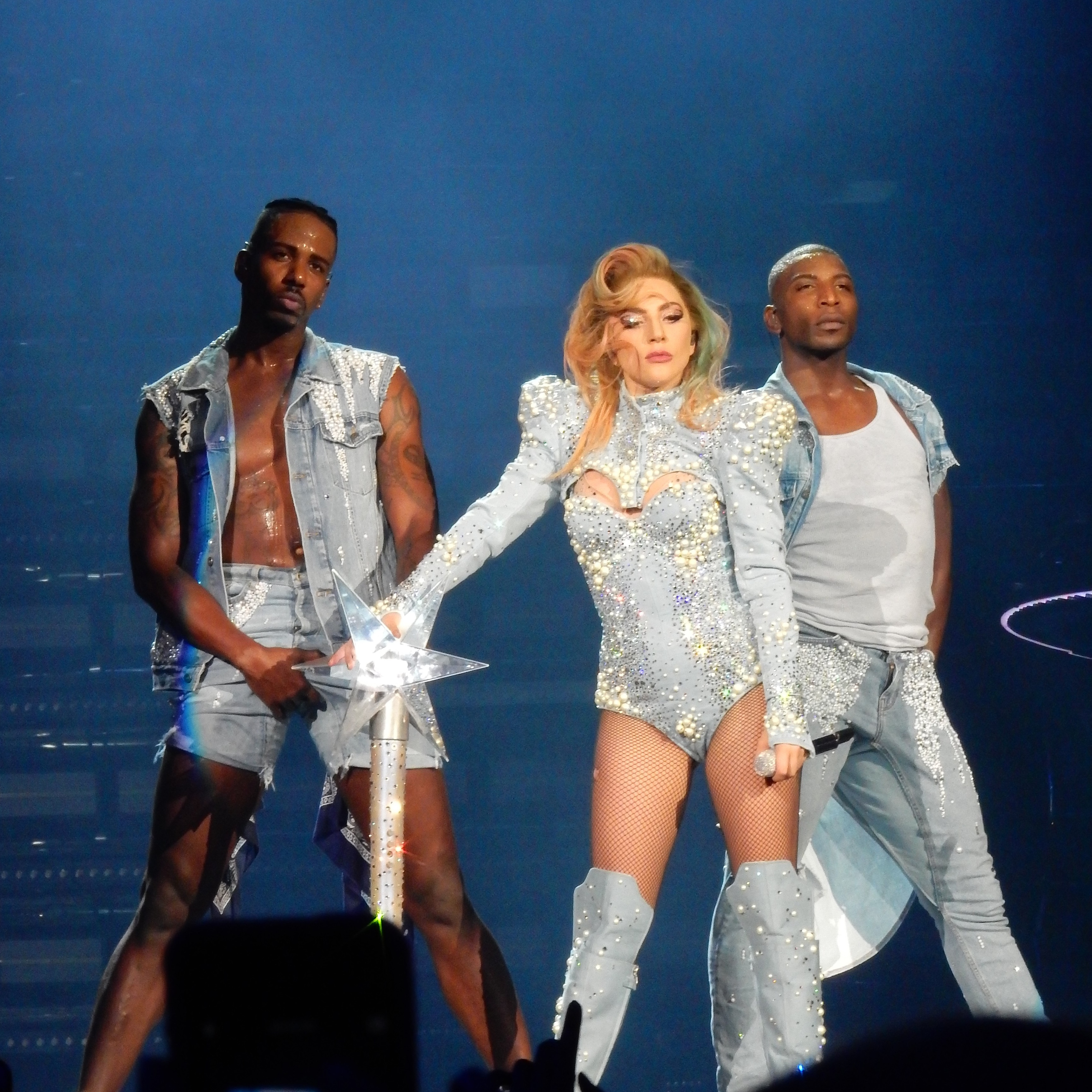 Lady Gaga performing at Arena Birmingham for the Joanne World Tour, January 31st 2018